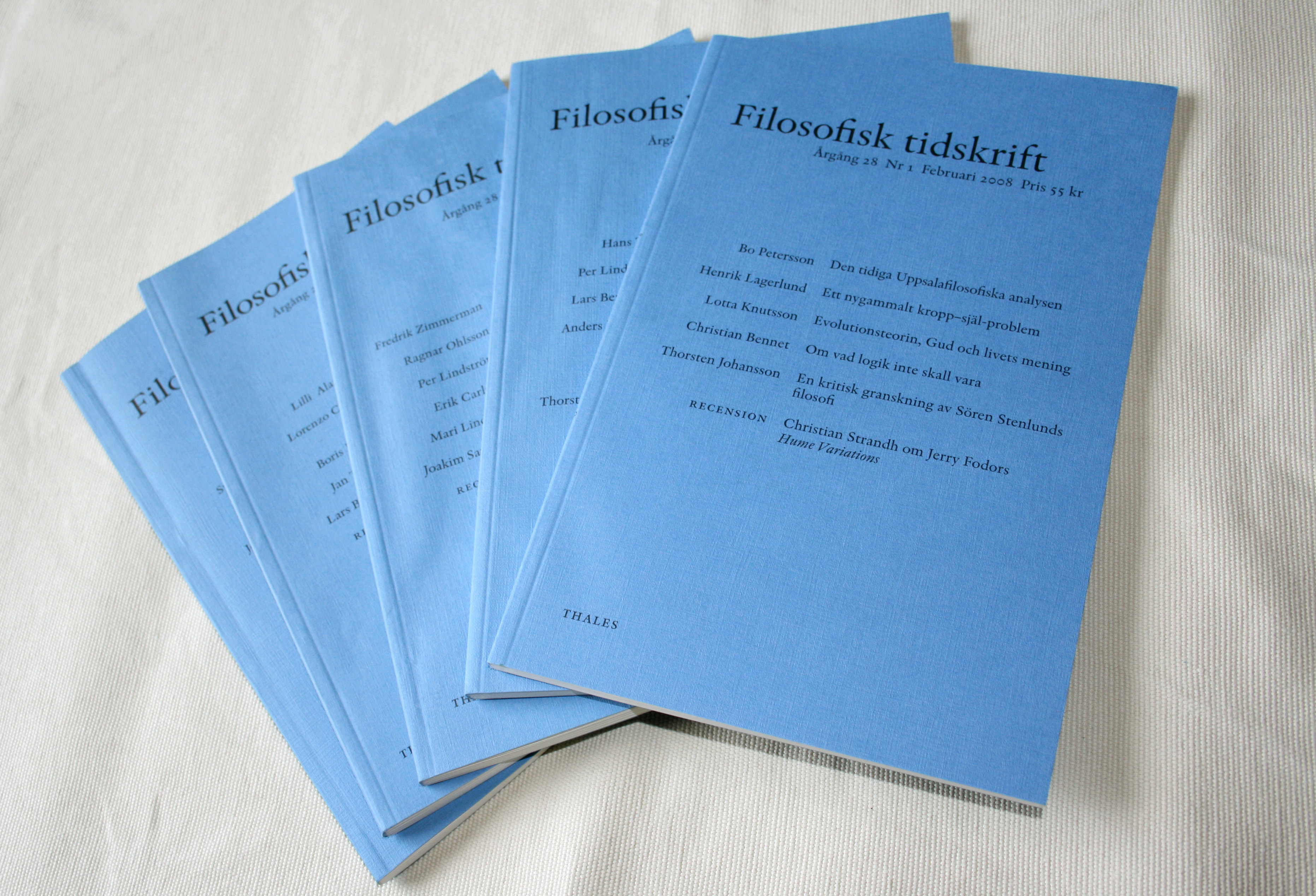 Swedish philosophical magazine "Filosofisk tidskrift".